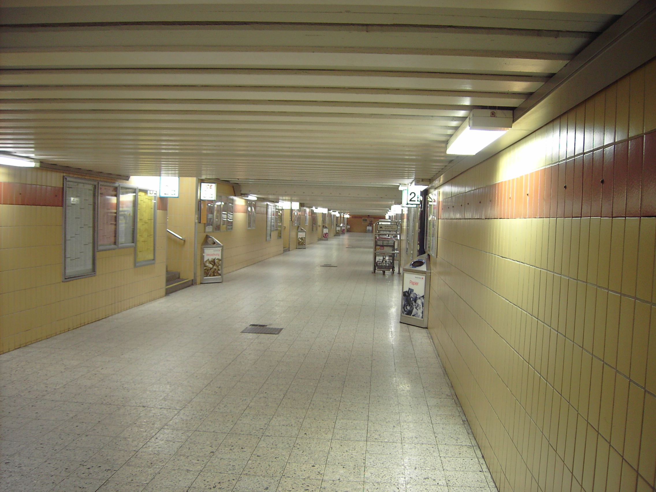 Würzburg main station, subway to the tracks